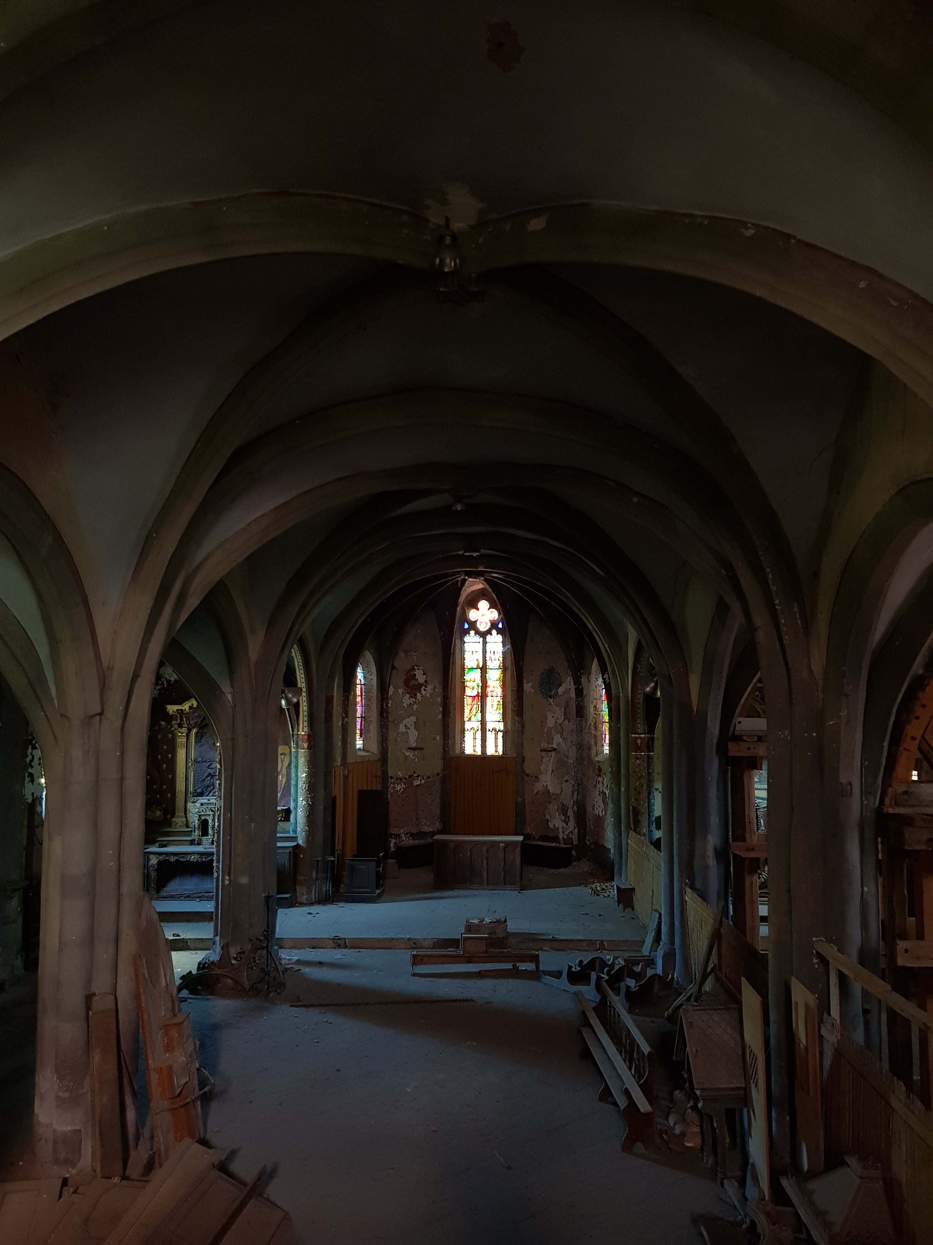 Interior of Saint-Jean church